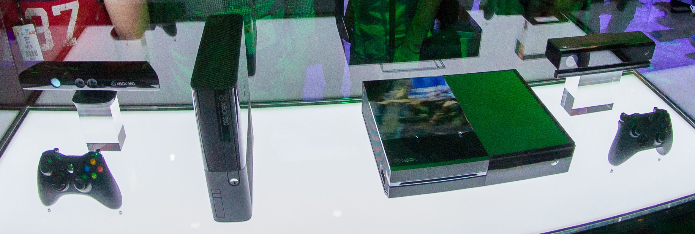 New Xbox 360 E and Xbox One hardware at E3 2013 (cropped)